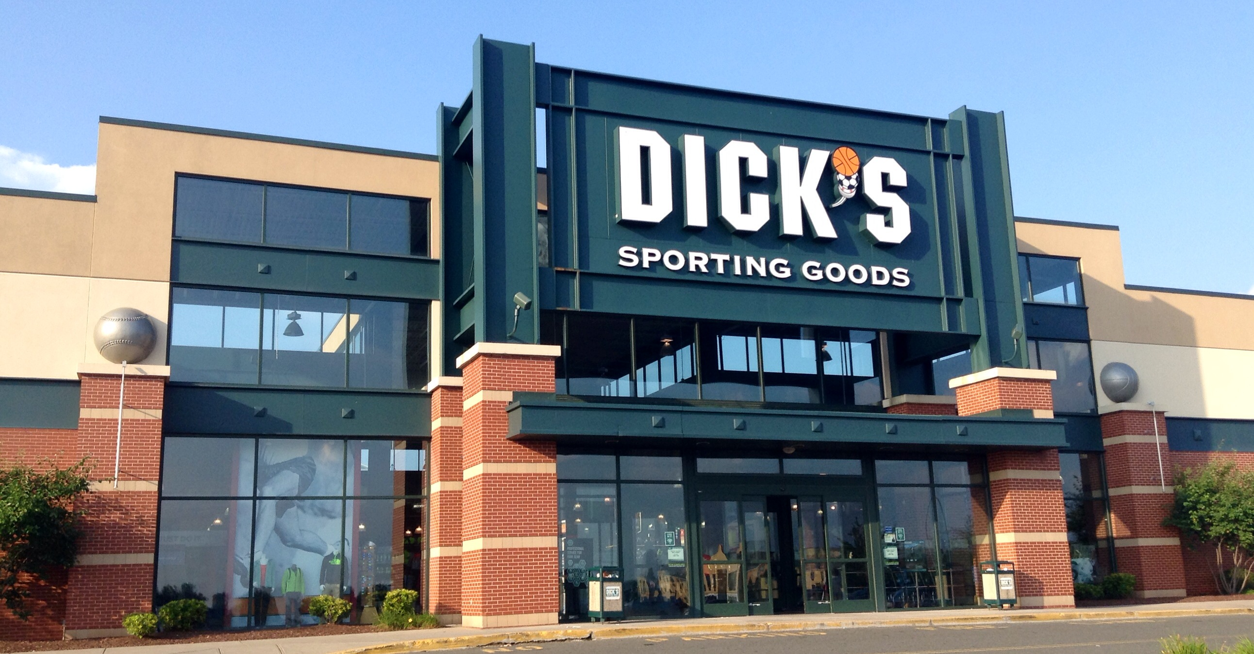 Dick's Sporting Goods, Manchester, CT. 7/2014 by Mike Mozart of TheToyChannel and JeepersMedia on YouTube